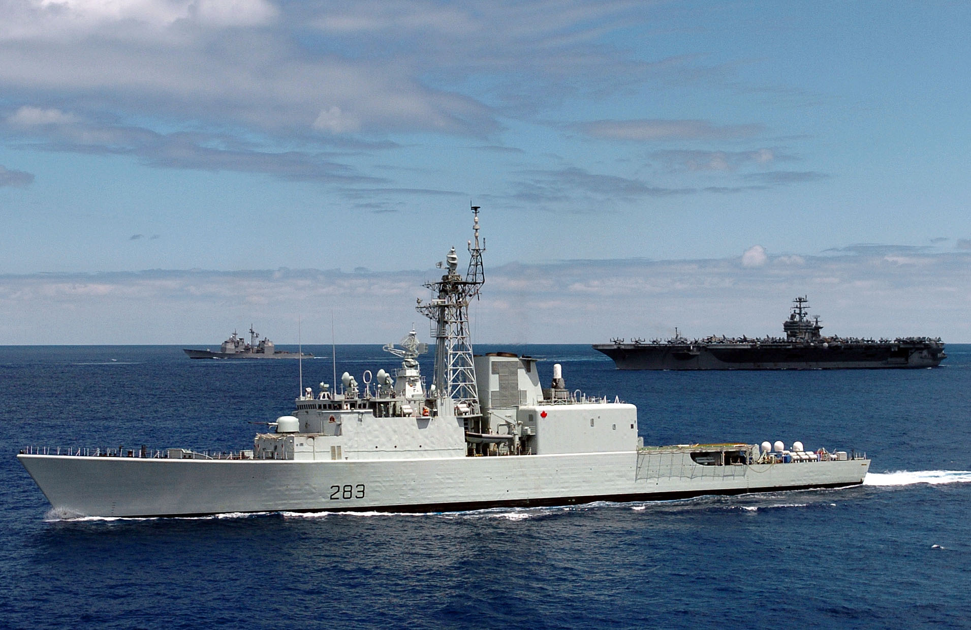 Pacific Ocean (June 25, 2004) - The Canadian destroyer HMCS Algonquin (DDG 283) is shown underway in close formation with the Nimitz-class aircraft carrier USS John C. Stennis (CVN 74) and the guided missile frigate USS Ford (FFG 54). Algonquin is participating in an eight-ship photo exercise just prior to participation in Rim of the Pacific Exercise (RIMPAC) 2004. RIMPAC is the largest international maritime exercise in the waters around the Hawaiian Islands. This years exercise will include seven participating nations; Australia, Canada, Chile, Japan, South Korea, Britain and the United States. RIMPAC is intended to enhance the tactical proficiency of participating units in a wide array of combined operations at sea, while enhancing stability in the Pacific Rim region. U.S. Navy photo by Photographer's Mate 2nd Class Jayme Pastoric (RELEASED)